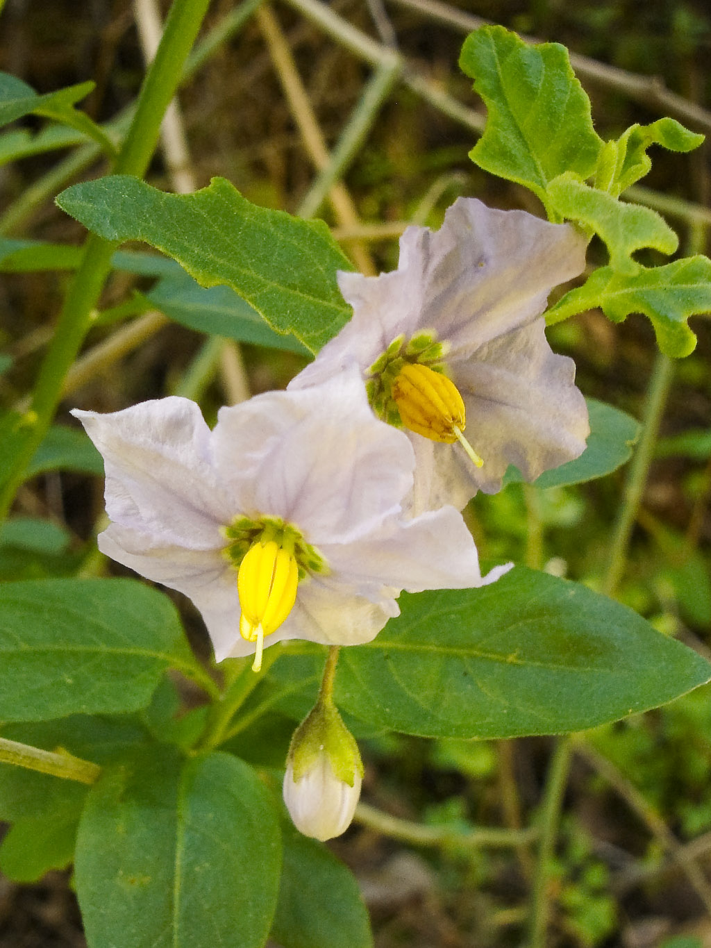 Solanum umbelliferum — Blue witch. On the Canada de Pala Trail, at Mount Diablo, Diablo Mountains, Contra Costa County, California.